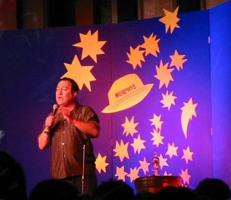 Dom Irrera doing the fully at the Kilkenny Car Laughts Comedy Festival - Ireland. Photo was taken by Colm Rice in Langhton's Pub on July 9 2003. With permission